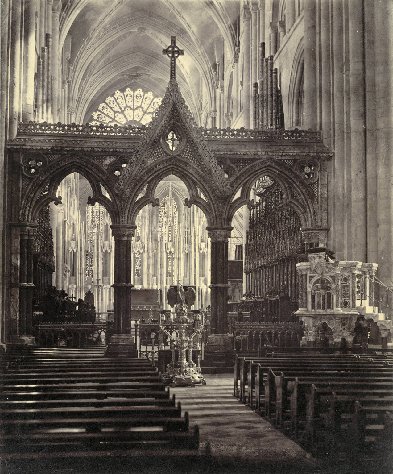 Collection: A. D. White Architectural Photographs, Cornell University Library Accession Number: 15/5/3090.01048 Title: Durham Cathedral, Altar Screen Architect: Henry Yeveley (English, 1325-1400) Building Date: 1093-1128 Screen date: 1380 Photograph date: ca. 1865-ca. 1895 Location: Europe: United Kingdom; Durham Materials: albumen print Image: 11 1/2 x 9 1/2 in.; 29.21 x 24.13 cm Provenance: Gift of Andrew Dickson White Persistent URI: There are no known copyright restrictions on this image. The digital file is owned by the Cornell University Library which is making it freely available with the request that, when possible, the Library be credited as its source. We had some help with the geocoding from Web Services by Yahoo! This image is from the Cornell University Library's The Commons Flickr stream. The Library has determined that there are no known copyright restrictions. This image was taken from Flickr's The Commons. The uploading organization may have various reasons for determining that no known copyright restrictions exist, such as: The copyright is in the public domain because it has expired; The copyright was injected into the public domain for other reasons, such as failure to adhere to required formalities or conditions; The institution owns the copyright but is not interested in exercising control; or The institution has legal rights sufficient to authorize others to use the work without restrictions. More information can be found at Please add additional copyright tags to this image if more specific information about copyright status can be determined. See Commons:Licensing for more information. No known copyright restrictionsNo restrictions